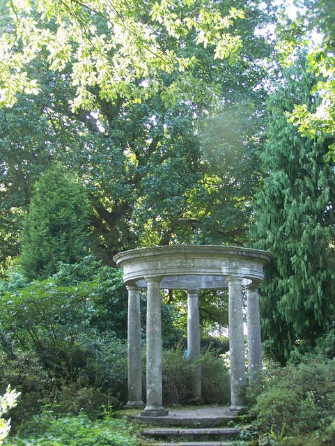 Temple within Great Comp Garden This is garden feature in the lovely garden on Great Comp.